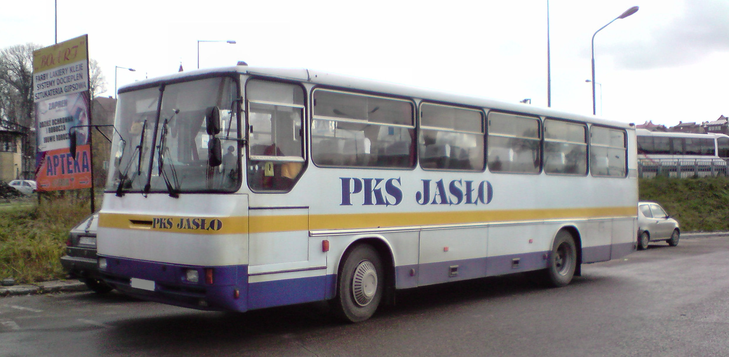 Autosan H10-10 Midi bus (reg. RJS 25FL) in Jasło, Poland. Built 1997, PKS Jasło operator.